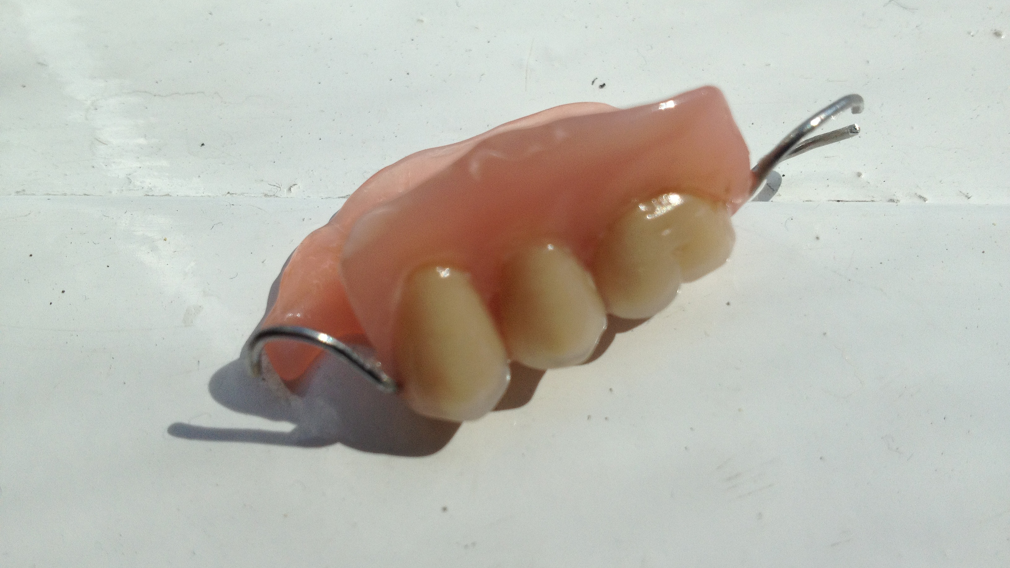 Unfixed dental part prosthesis (Temporary bridge between canine tooth and molar, upper jaw)